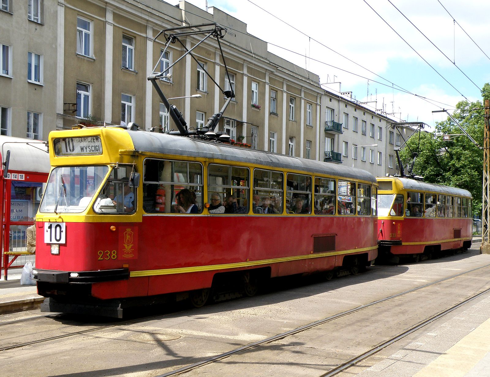 Konstal 13N tram on the Puławska Street in Warsaw, line 10, No 238+239